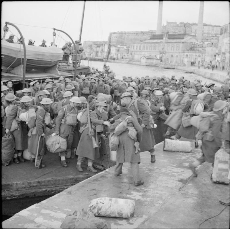 The British Army on Malta 1942 Troops come ashore from ships in Grand Harbour, Malta, 21 January 1942.